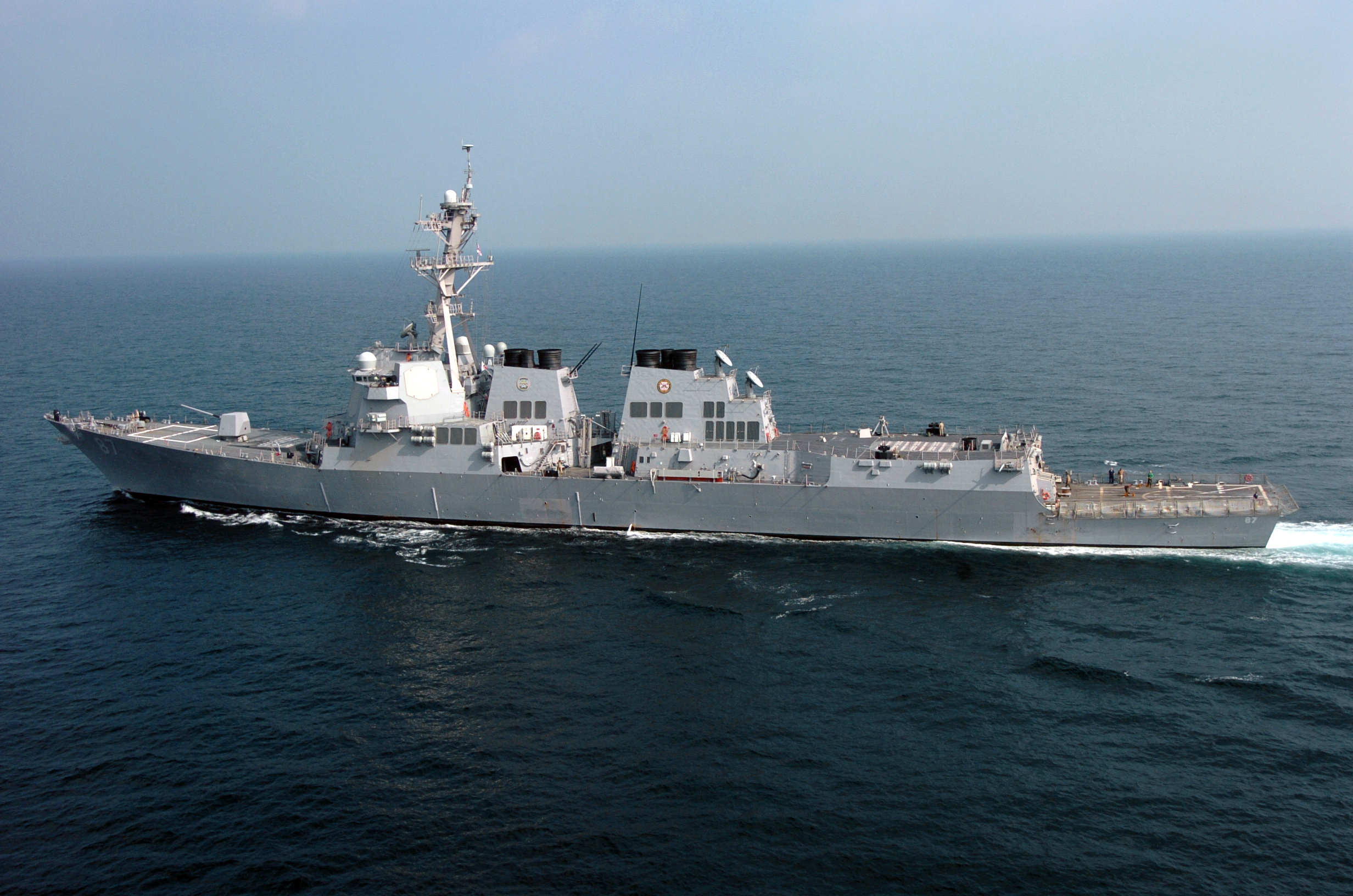 Persian Gulf (Jan. 2, 2005) — The guided missile destroyer USS Mason (DDG-87) patrols the Northern Persian Gulf. Mason is on her first deployment to the Persian Gulf as part of the USS Harry S. Truman (CVN-75) Carrier Strike Group, to support coalition efforts in the Global War on Terrorism.